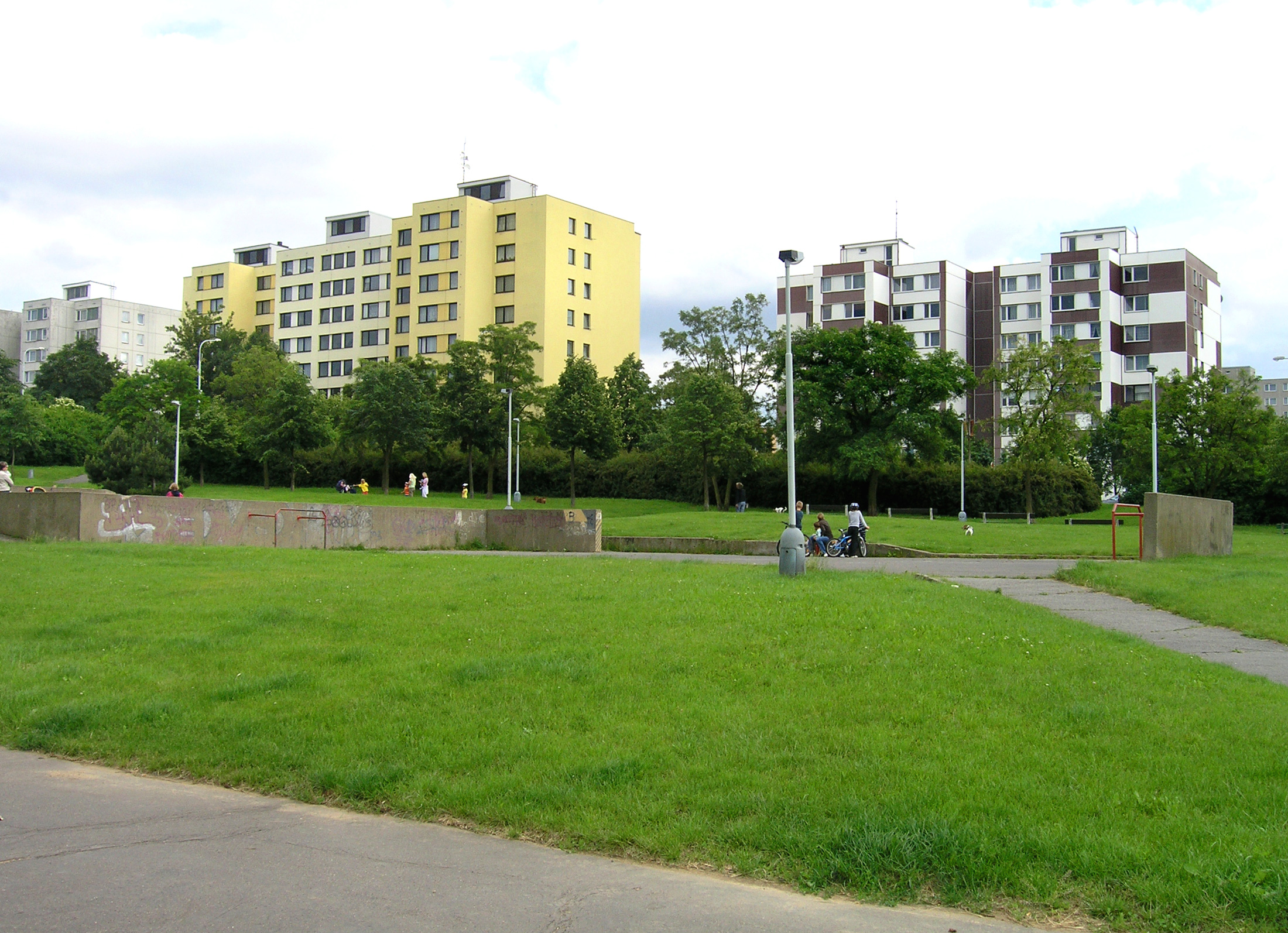 Krosenská street in Troja, Prague